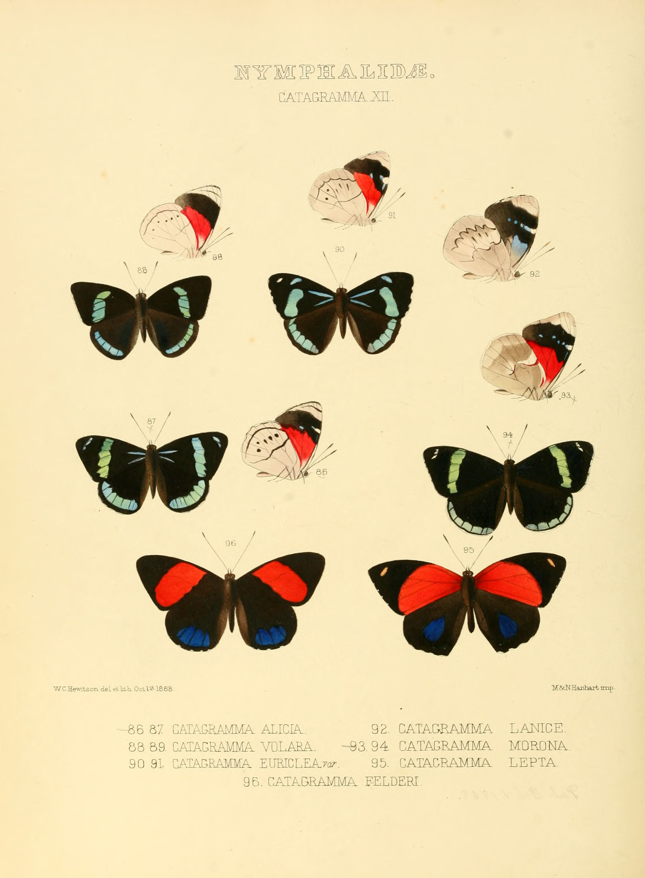 Plate: Catagramma XII Catagramma alicia. Figs. 86, 87. Accepted as Perisama alicia (Hewitson, 1868). Catagramma volara. Figs. 88, 89. Accepted as Mesotaenia vaninka (Hewitson, 1855). Catagramma euriclea var. Figs. 90, 91. Accepted as Perisama euriclea (Doubleday, 1847). Catagramma lanice. Fig. 92. Accepted as Perisama lanice (Hewitson, 1868). Catageamma morona. Figs. 93, 94. Accepted as Perisama morona (Hewitson, 1868). Catagramma lepta. Fig. 95. Accepted as Callicore texa (Hewitson, 1855). Catagramma felderi var. Fig. 96. Accepted as Callicore felderi (Hewitson, 1864).